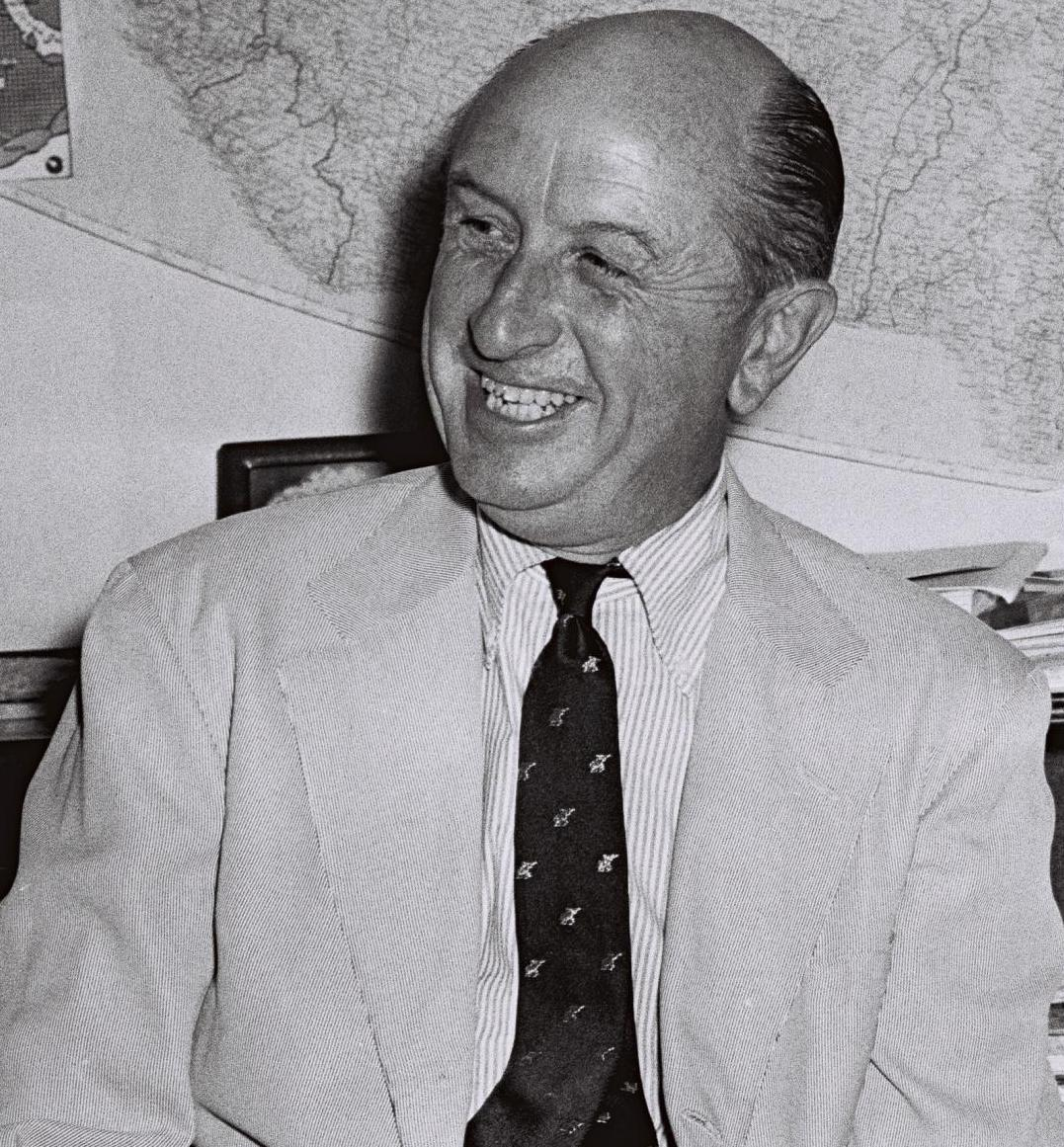 Wikipedia:Eugene R. Black